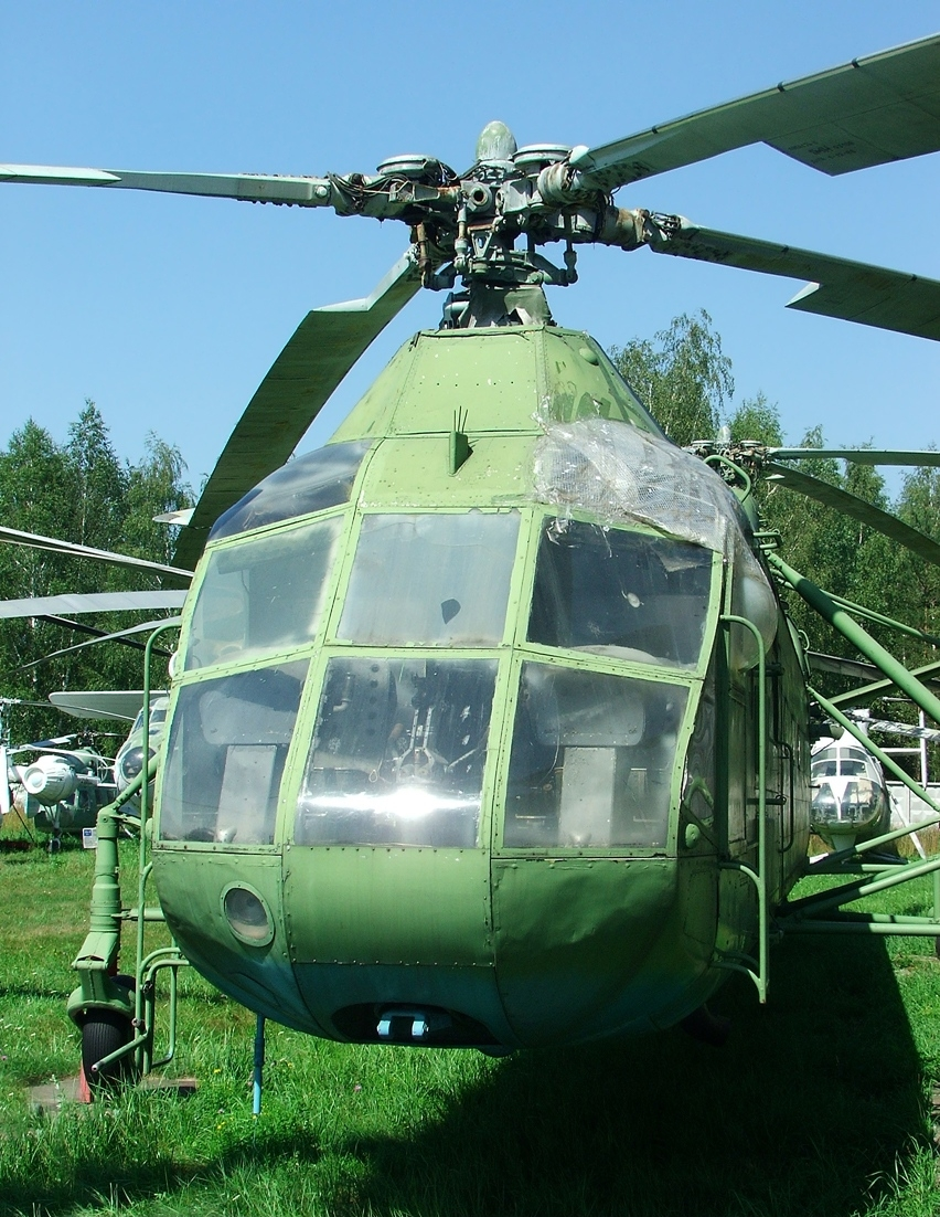 Yakovlev Yak-24 transport helicopter at Central Russian Air Force museum, Monino